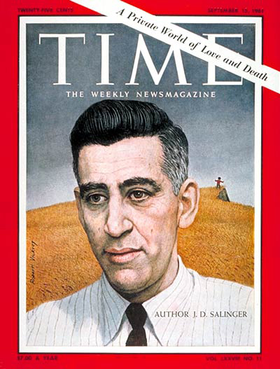 Time magazine, Volume 78 Issue 11. Front cover is an illustration of J. D. Salinger.